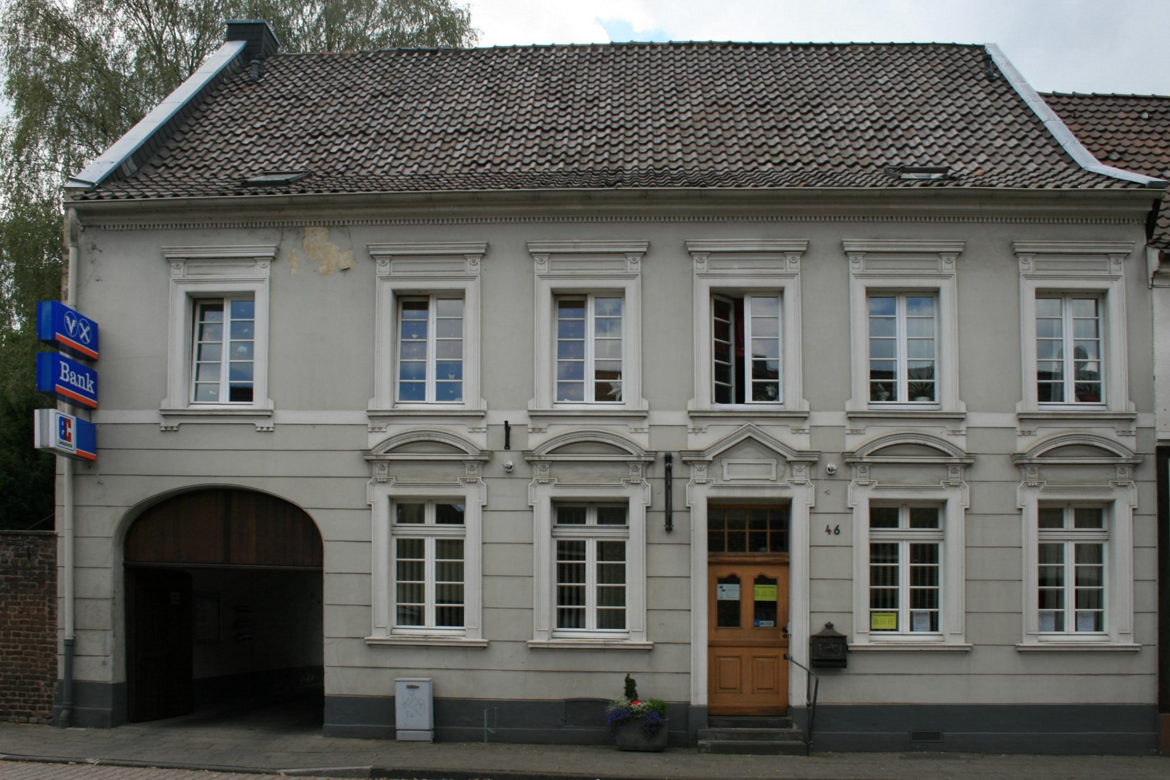 Cultural heritage monument No. B 038 in Mönchengladbach